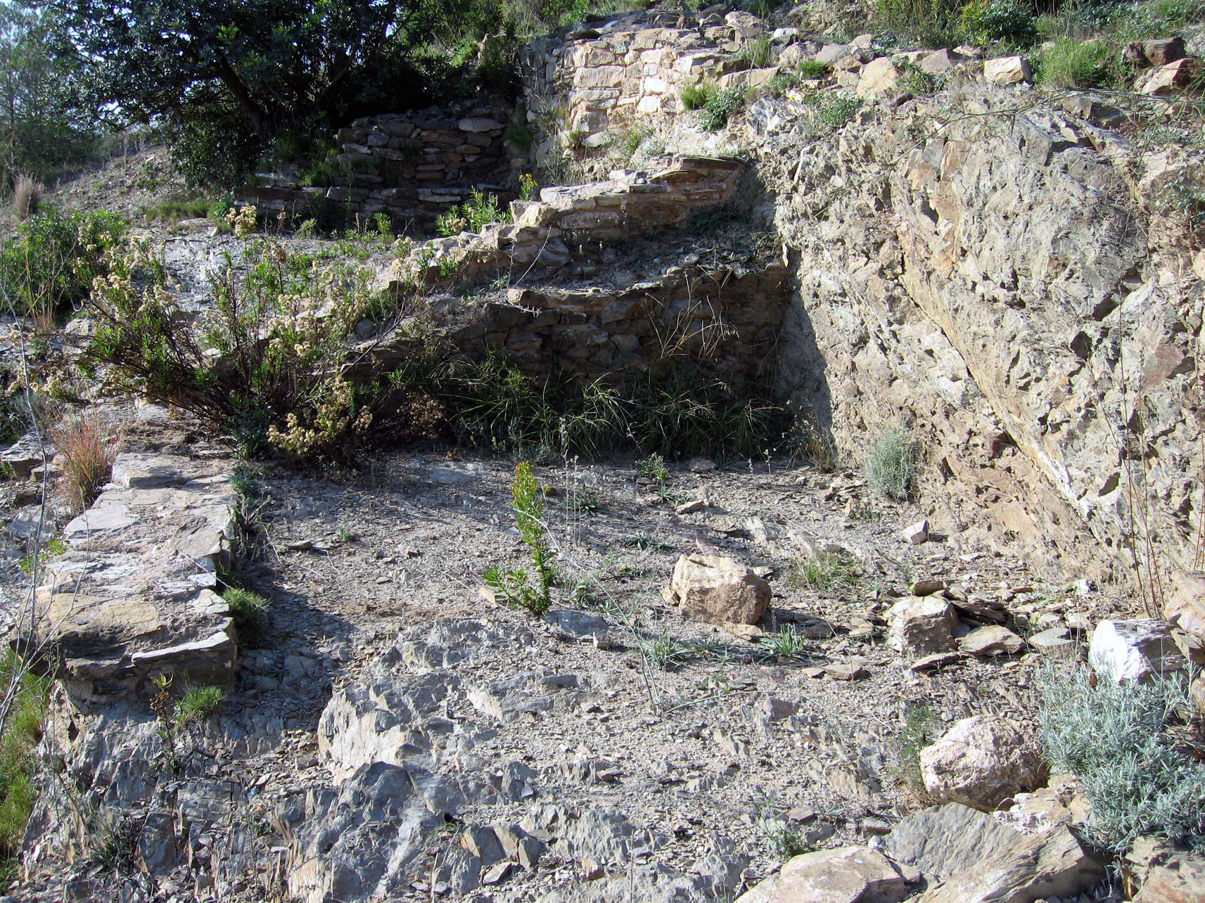 The “Penya del Moro” in the Serra de Collserola (Sant Just Desvern, Catalonia).